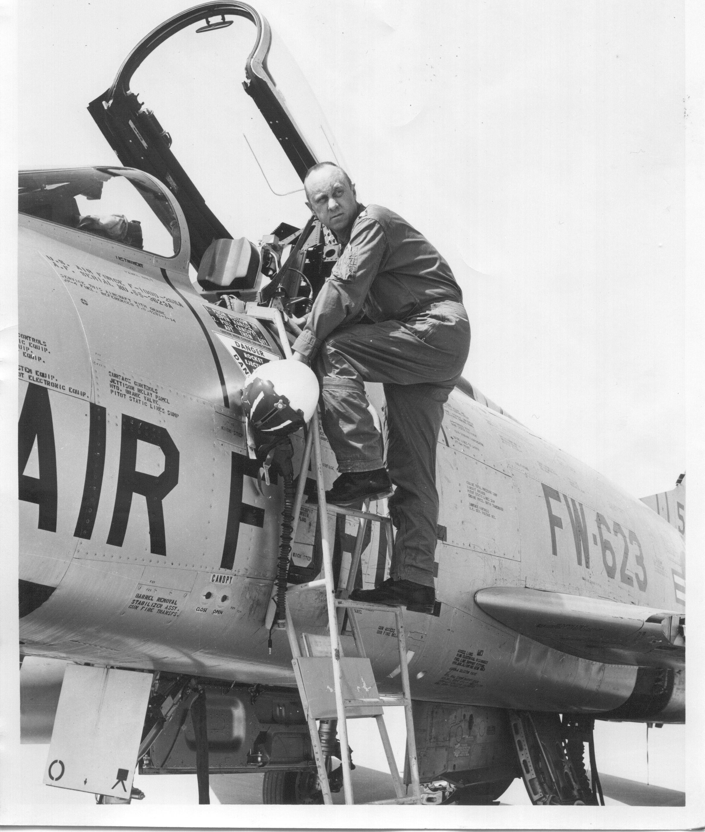 U.S. Air Force LtCol. Harold E. Comstock on a North American F-100D-25NA Super Sabre (s/n 55-3623).